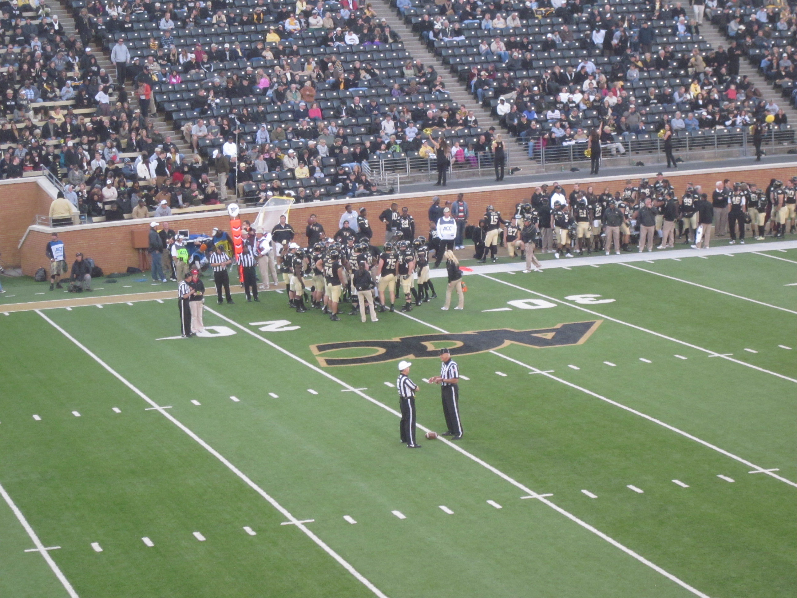 Picture from the Wake Forest/Boston College game on November 3, 2012